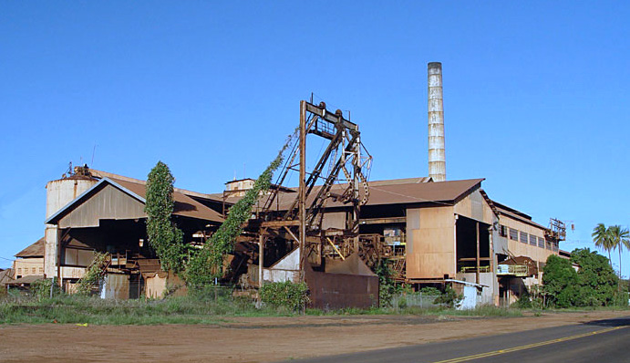 Kekaha sugar mill — Kauai County, Hawaii. Photo by Christopher P. Becker. Photo was taken on Friday, February 21, 2003. Appears online at